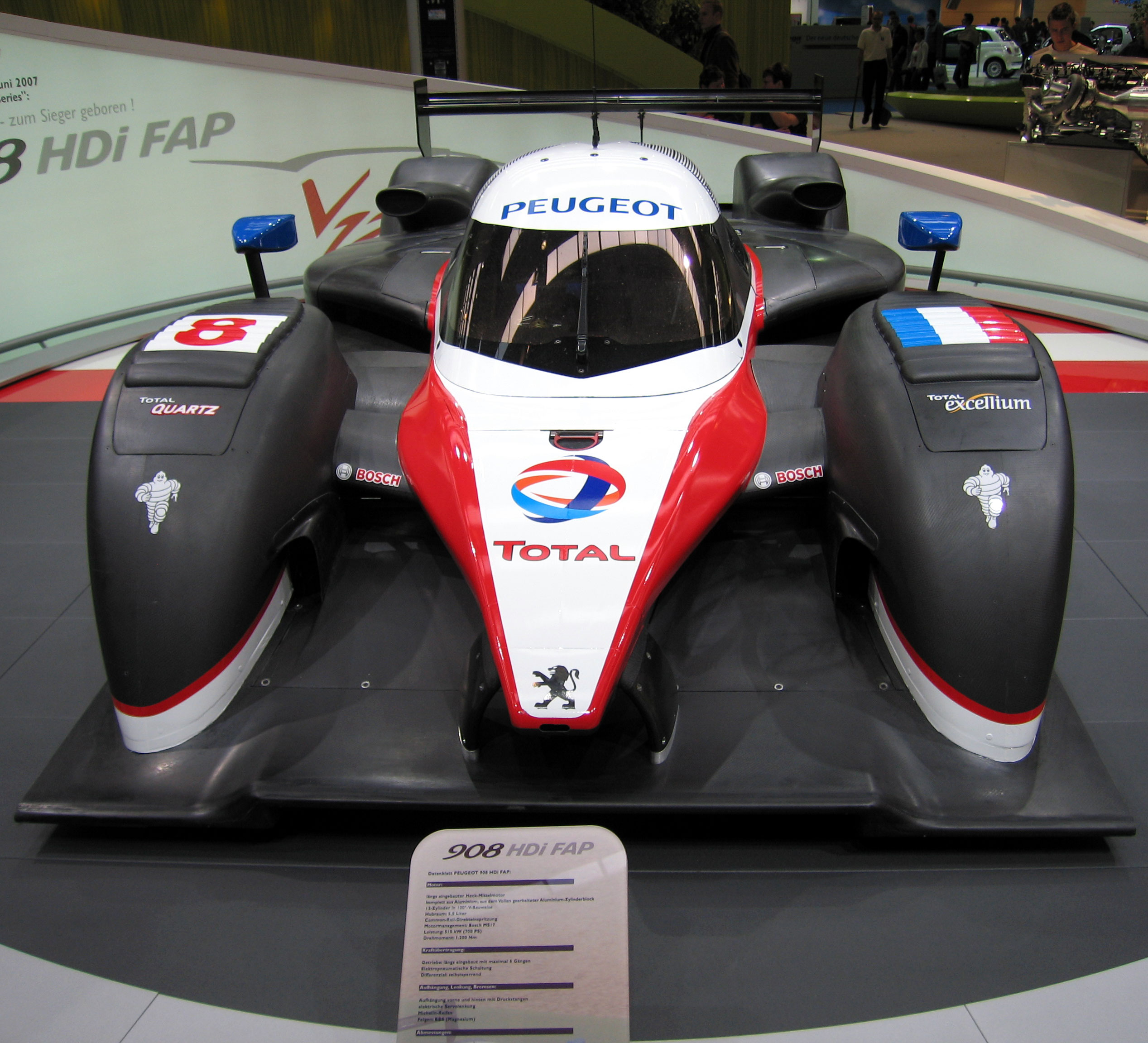 Peugeot 908 HDi FAP at the IAA 2007